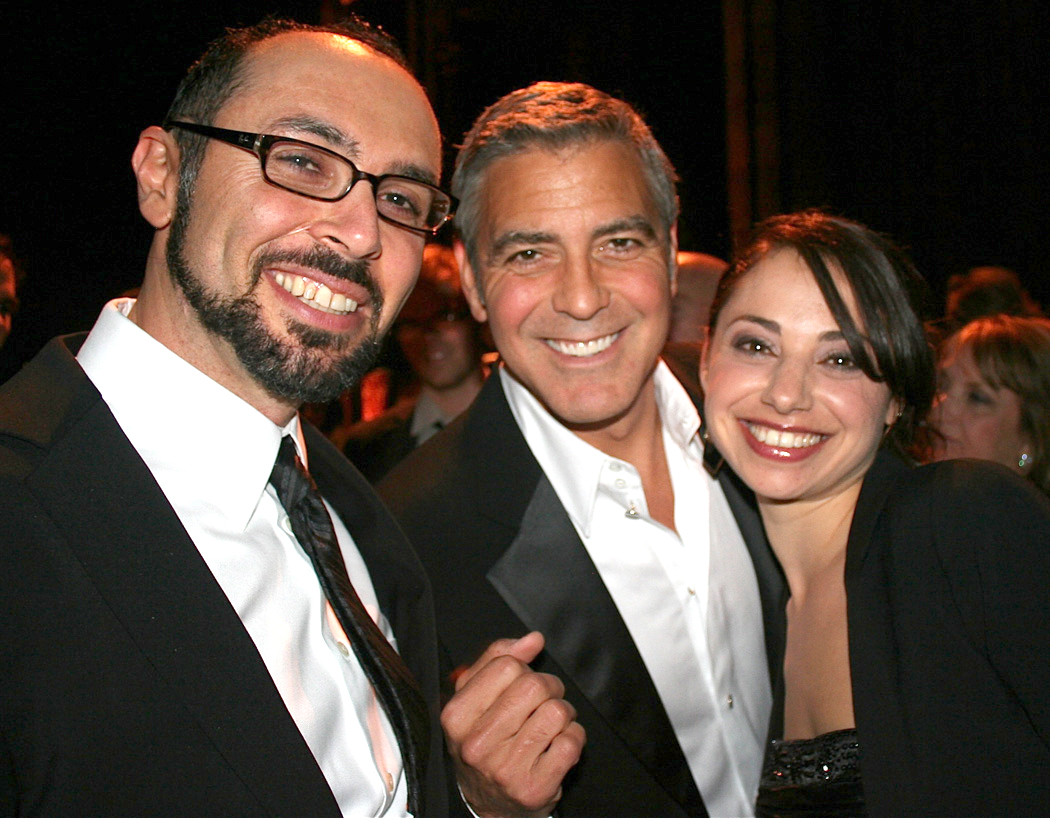 Filmmaker Yoav Potash with actor George Clooney and Potash's wife Shira Potash at the 2012 National Board of Review Awards in New York City. Potash received the Freedom of Expression Award for his documentary "Crime After Crime" while Clooney was honored with the Best Actor Award for "The Descendants."